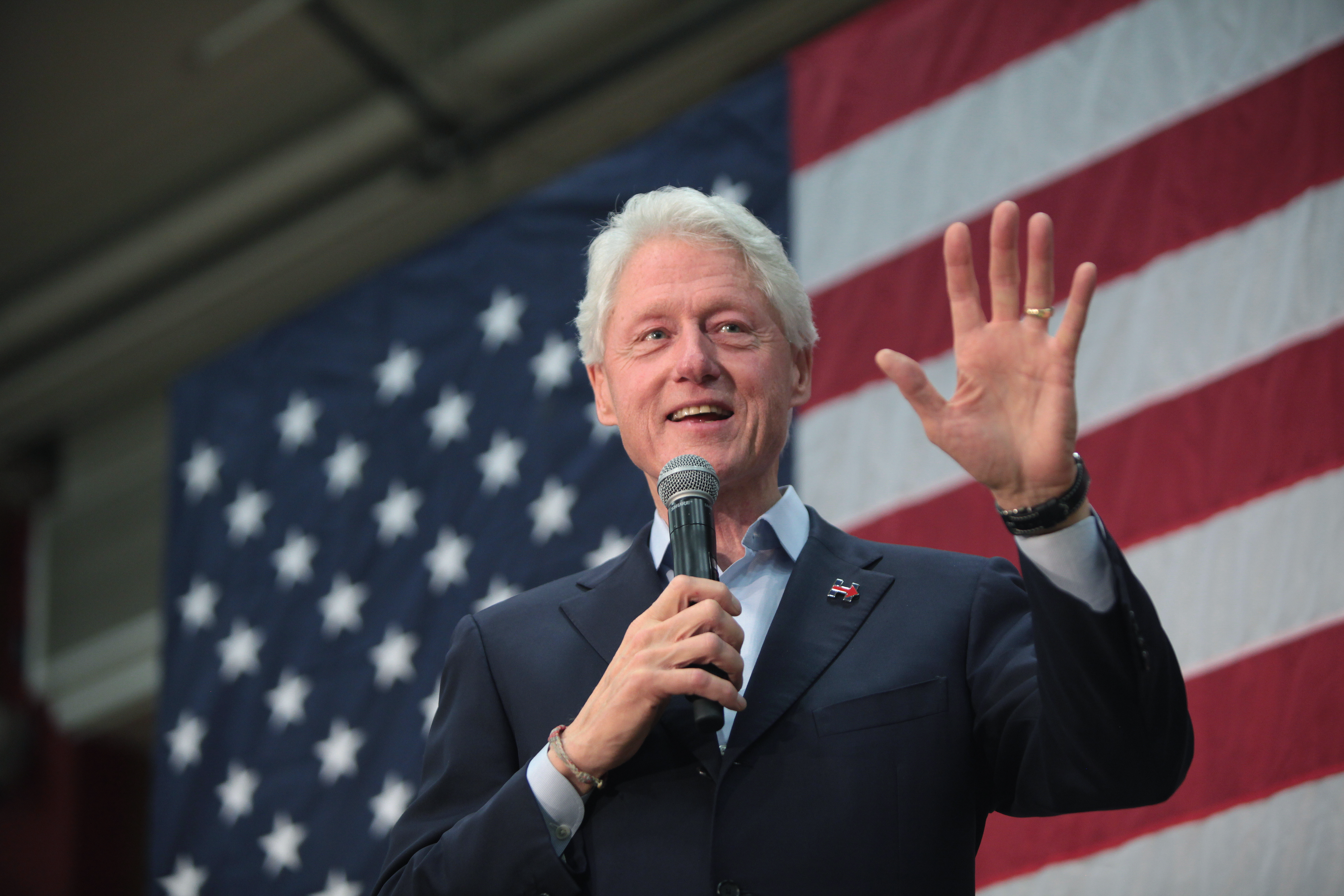 Former President Bill Clinton speaking with supporters at a campaign rally for his wife, former Secretary of State Hillary Clinton, at Central High School in Phoenix, Arizona.